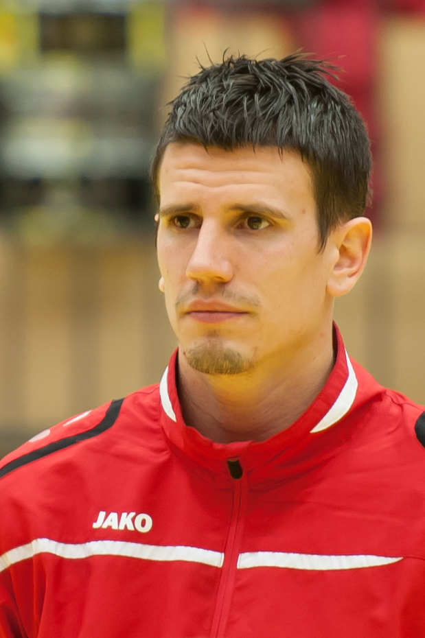 Friendly match Austria - Switzerland 2015-01-06 at Tulln, Austria